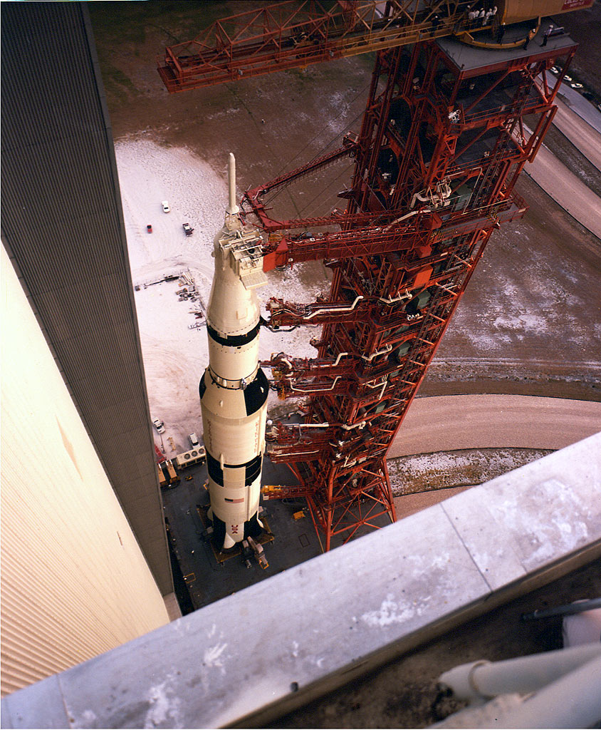 Apollo 15 rollout taken from the roof of Vehicle Assembly Building